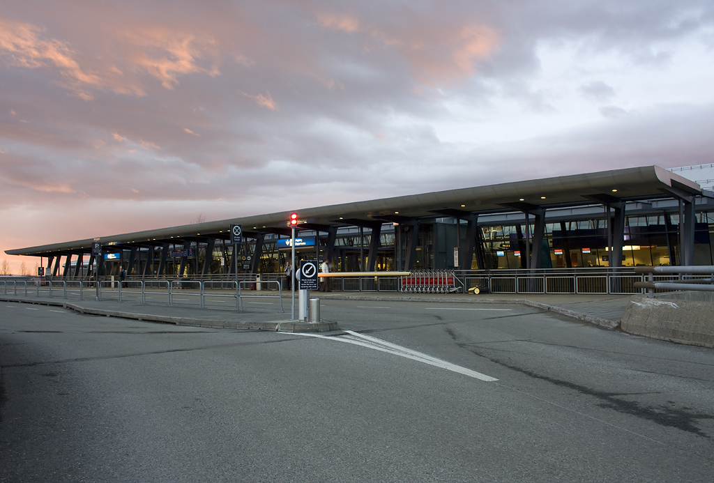 Second floor of Terminal A at Trondheim Airport, Værnes.